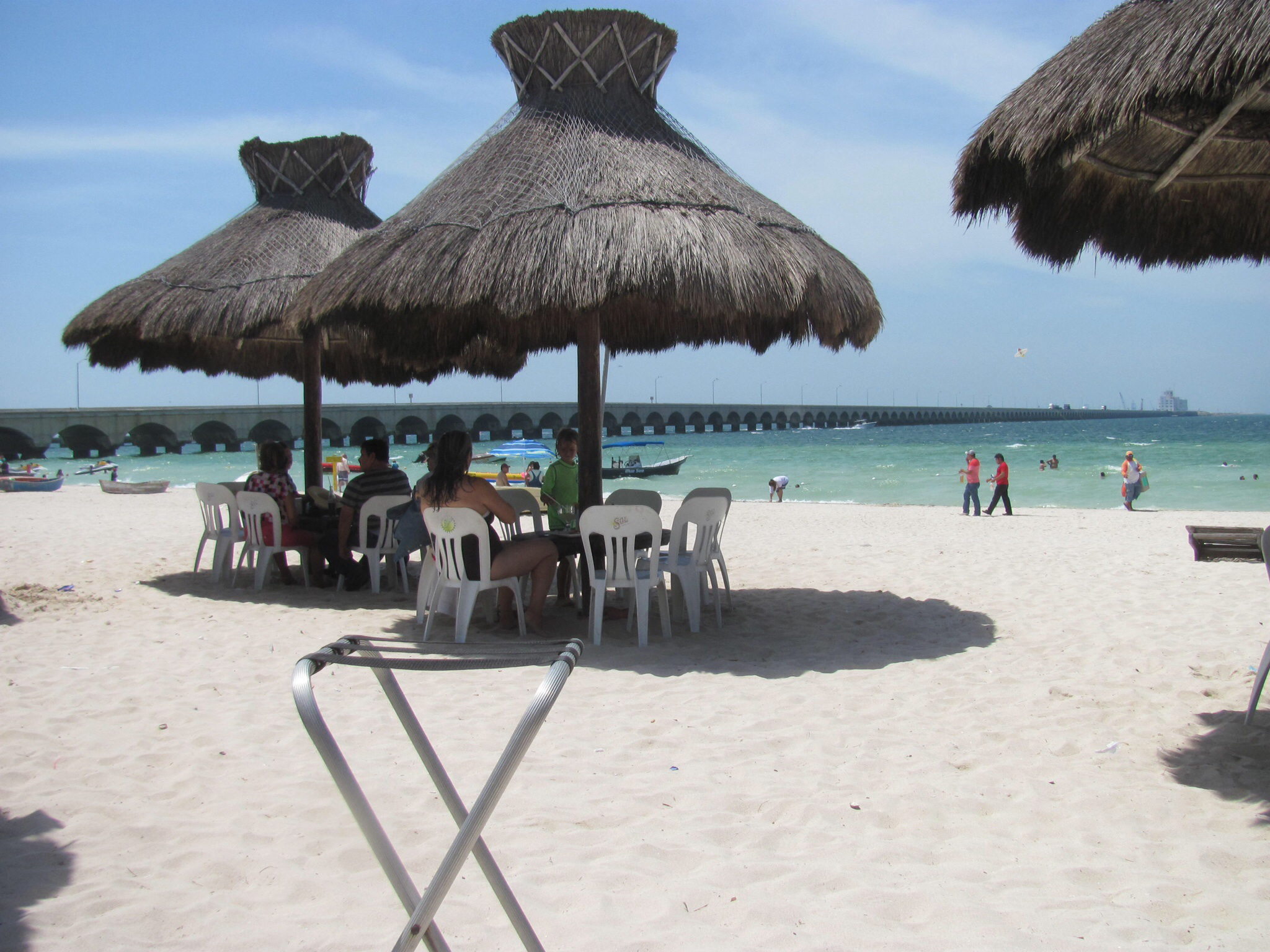 Pier and beach Progreso